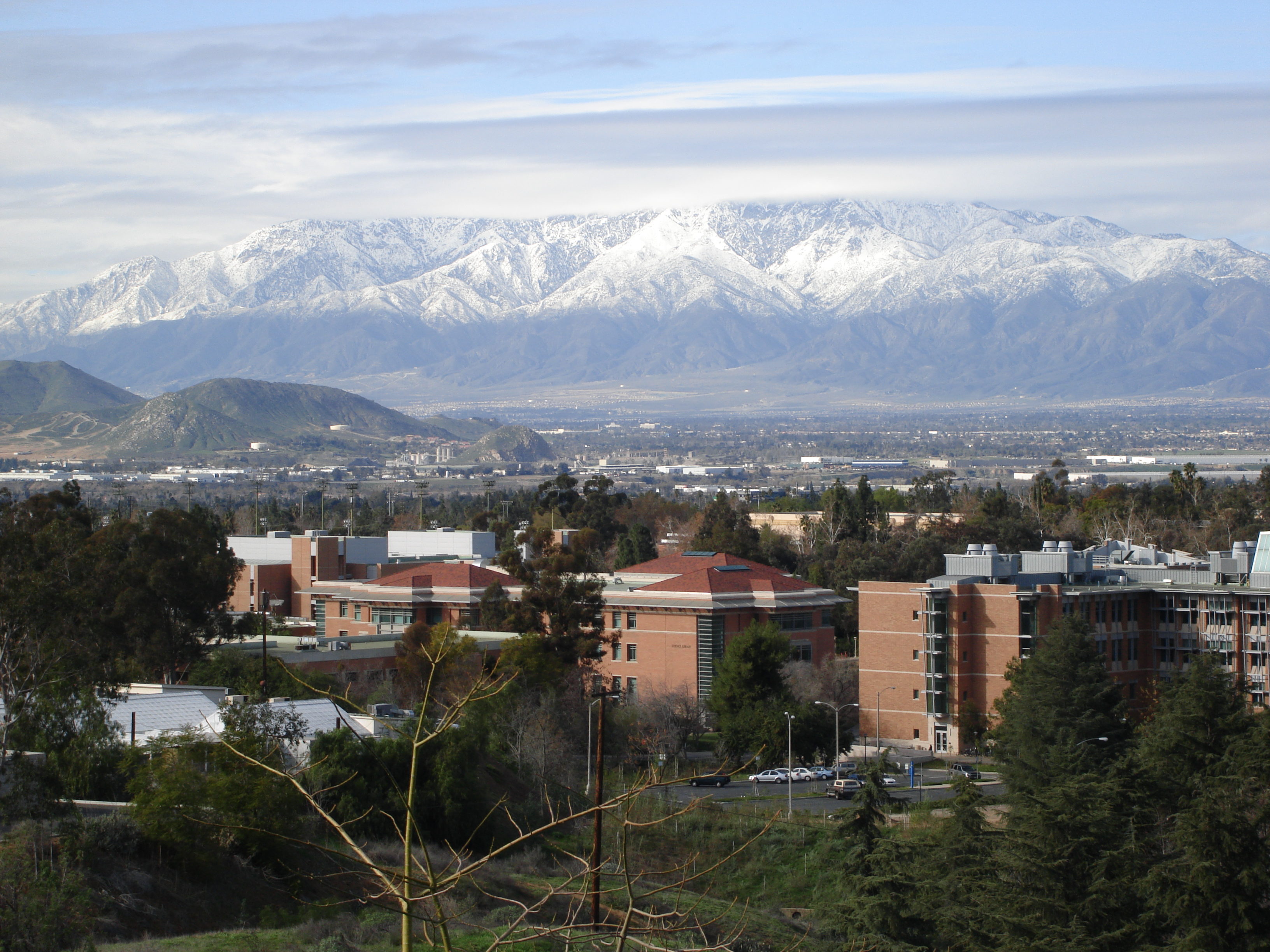 UCR seen against the icecapped mountains taken from the botanical gardens.